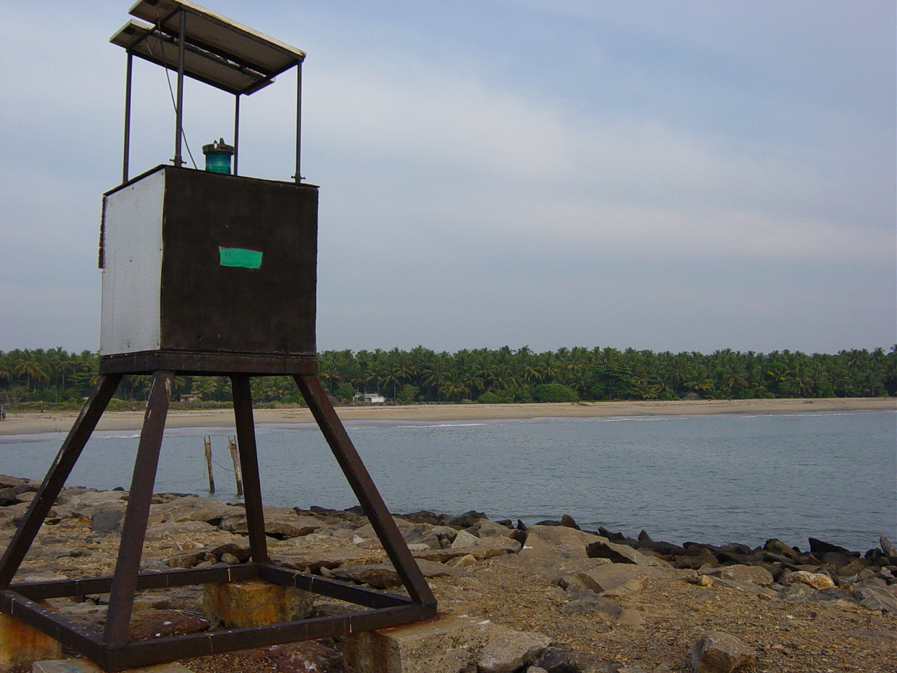 Old type light house